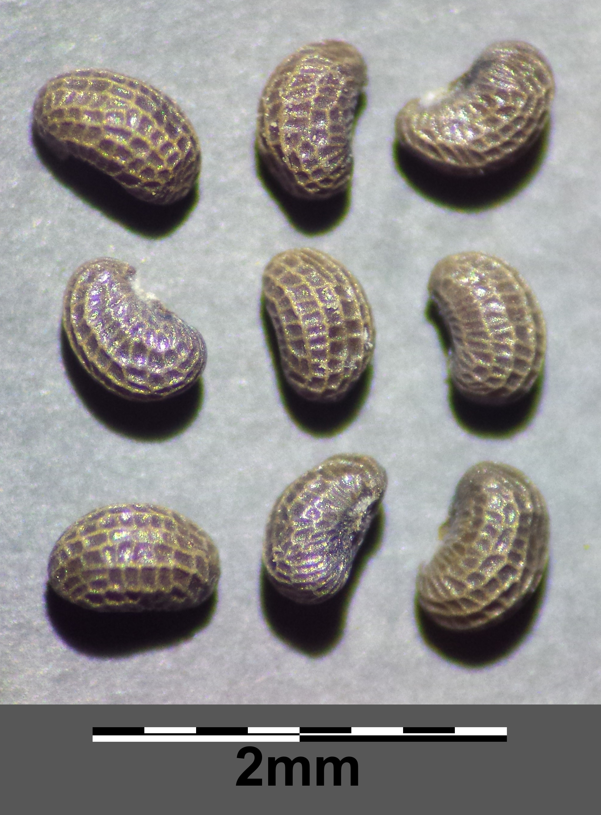 Seeds Taxonym: Papaver argemone ss Fischer et al. EfÖLS 2008 ISBN 978-3-85474-187-9 Location: Floridsdorf rail station, Vienna-Floridsdorf - ca. 160 m a.s.l. Habitat: ballast